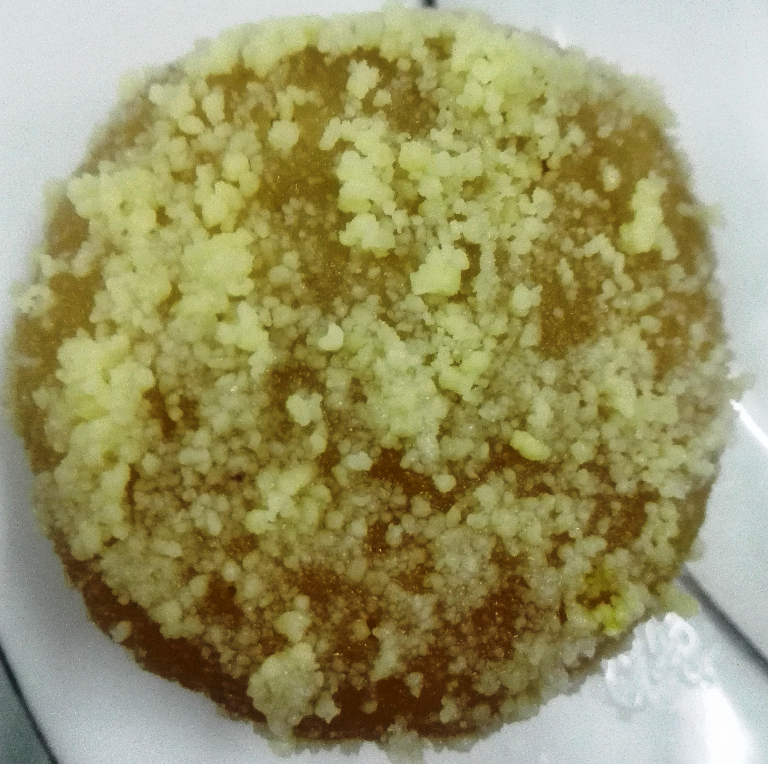 sondesh is a sweetmeats of Bangladesh and india